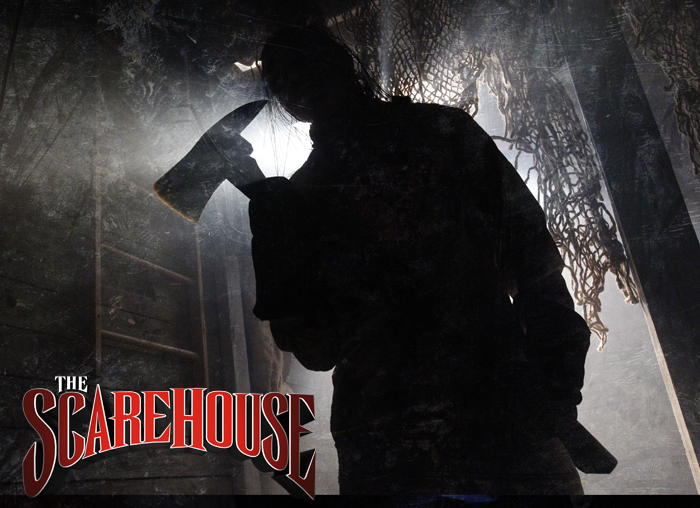 This character appears in Forsaken